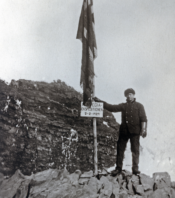 Captain Nils Larsen. From the first landing on Peter I Island.